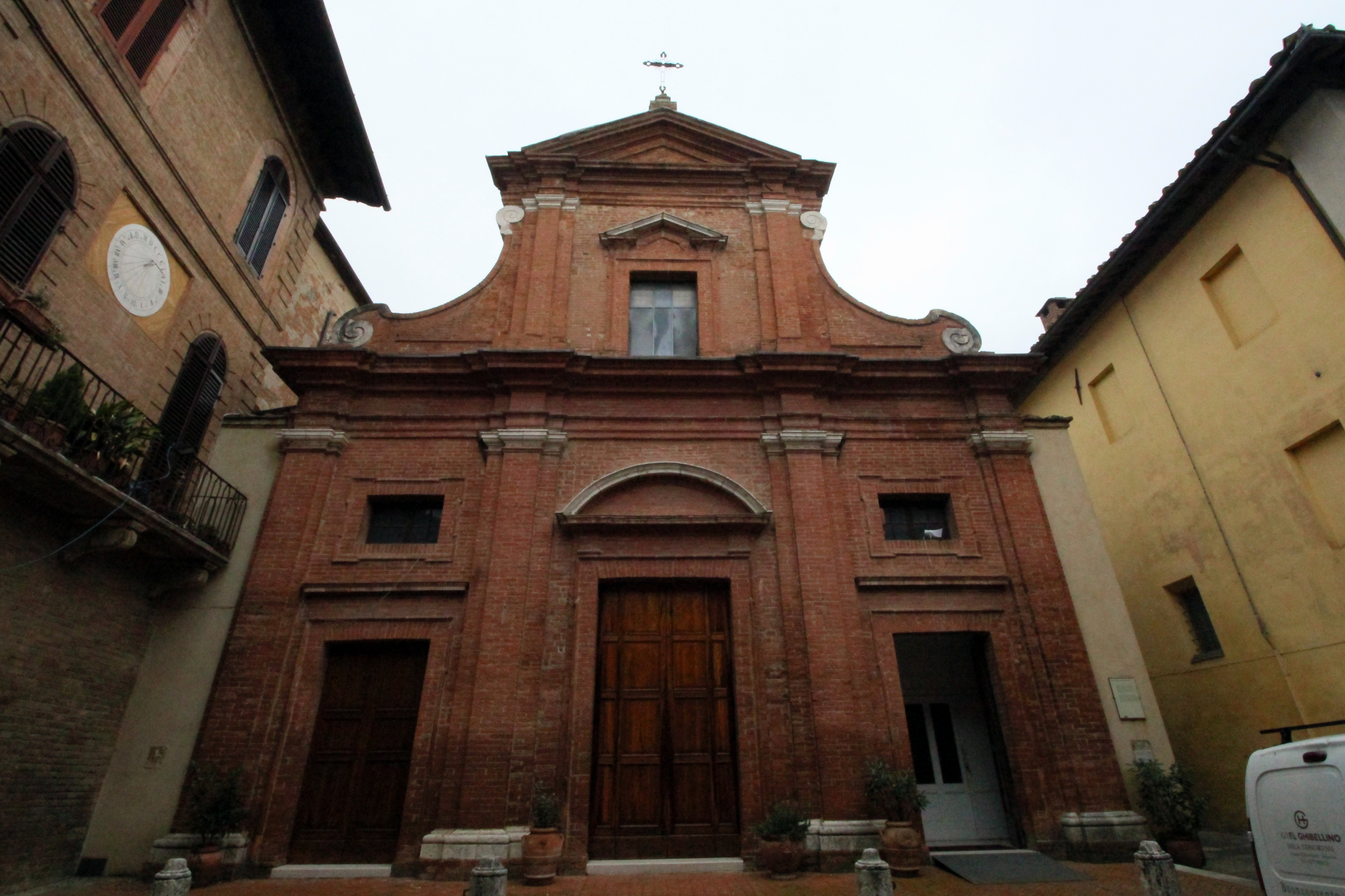 Church Santi Pietro e Paolo, Center of Buonconvento, Province of Siena, Tuscany, Italy